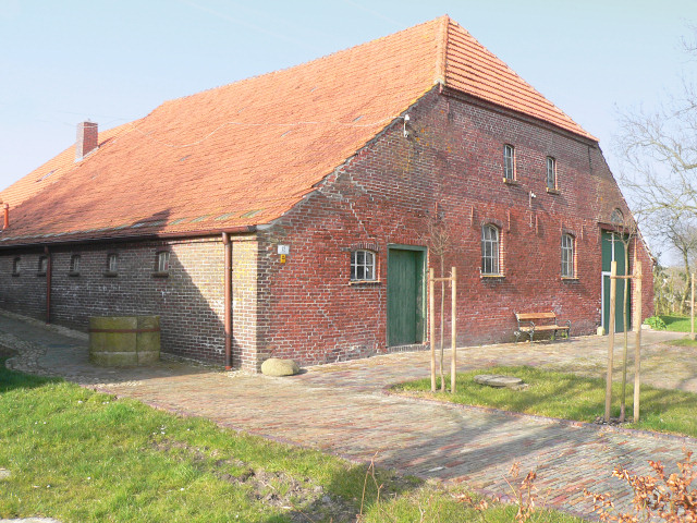 A Gulf house in Wurtendorf in Wangerland, North Germany